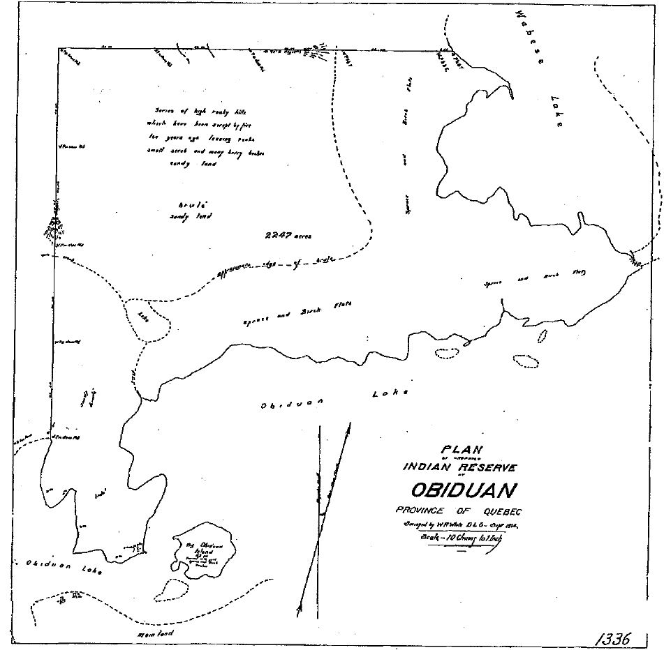 A map of the Planned Indian Reserve of Obijuan (now Obedjiwan), Quebec, Canada, made by surveyor W. R. White